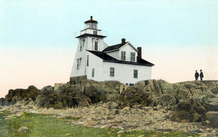 Print (photomechanical), Grand Harbour Lighthouse, Grand Manan, NB, about 1910, James Valentine & Sons, Coloured ink on paper mounted on card - Photolithography - 8.8 x 13.8 cm